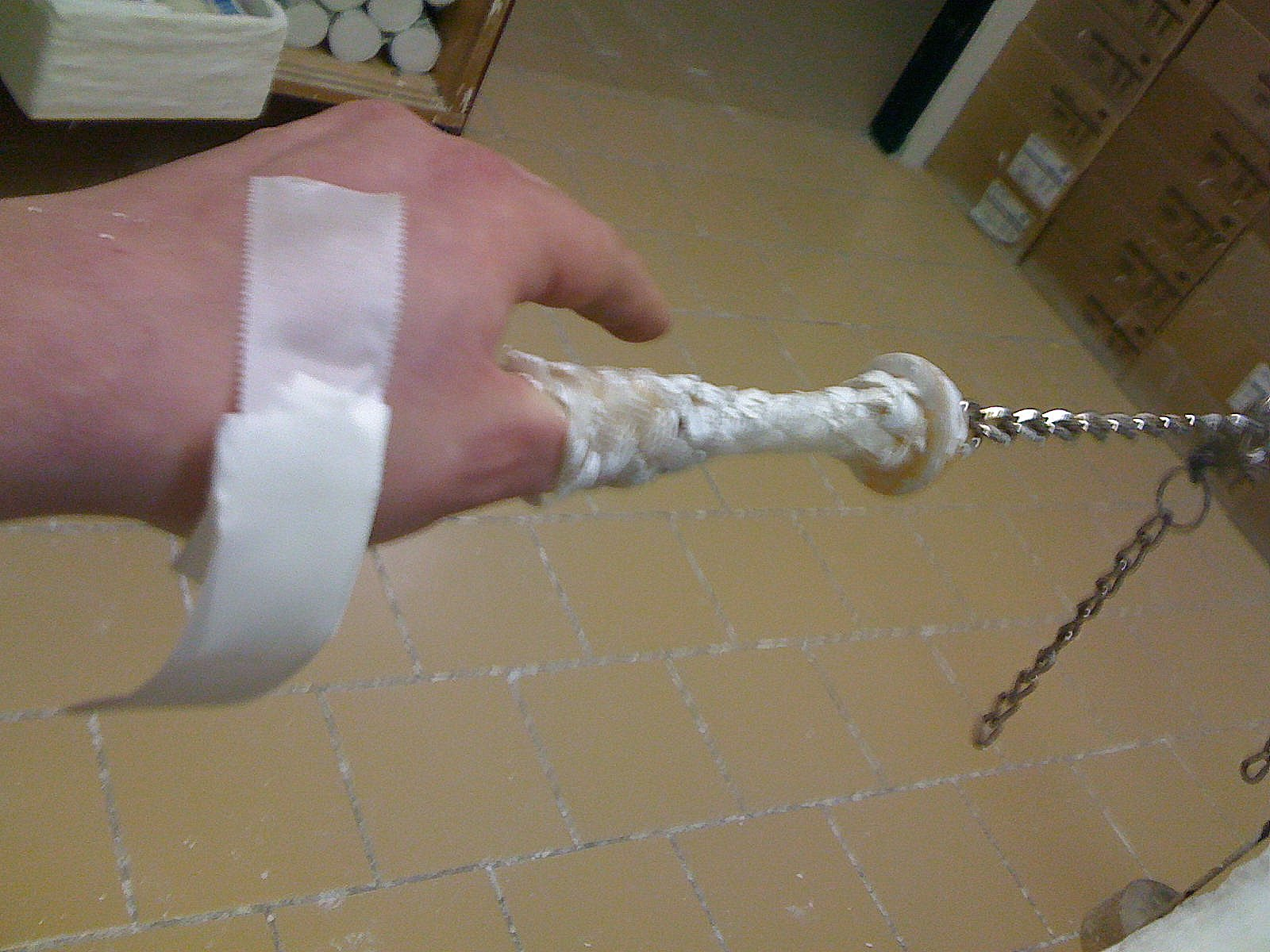 Attempting to straightening and fixing Bennet's fracture basis MTC primi manus 1. sin (S62.20) at the emergency of Trauma Hospital of Brno More images of this case